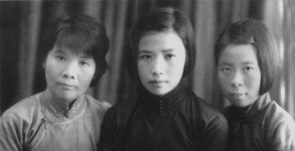 Sun Weishi (middle) at the age of 19. On the left is her mother Ren Rui. On the right is Aunt Ren Jun, the same age-old actress who was named as a Chinese opera actor, in Yan'an in 1938.